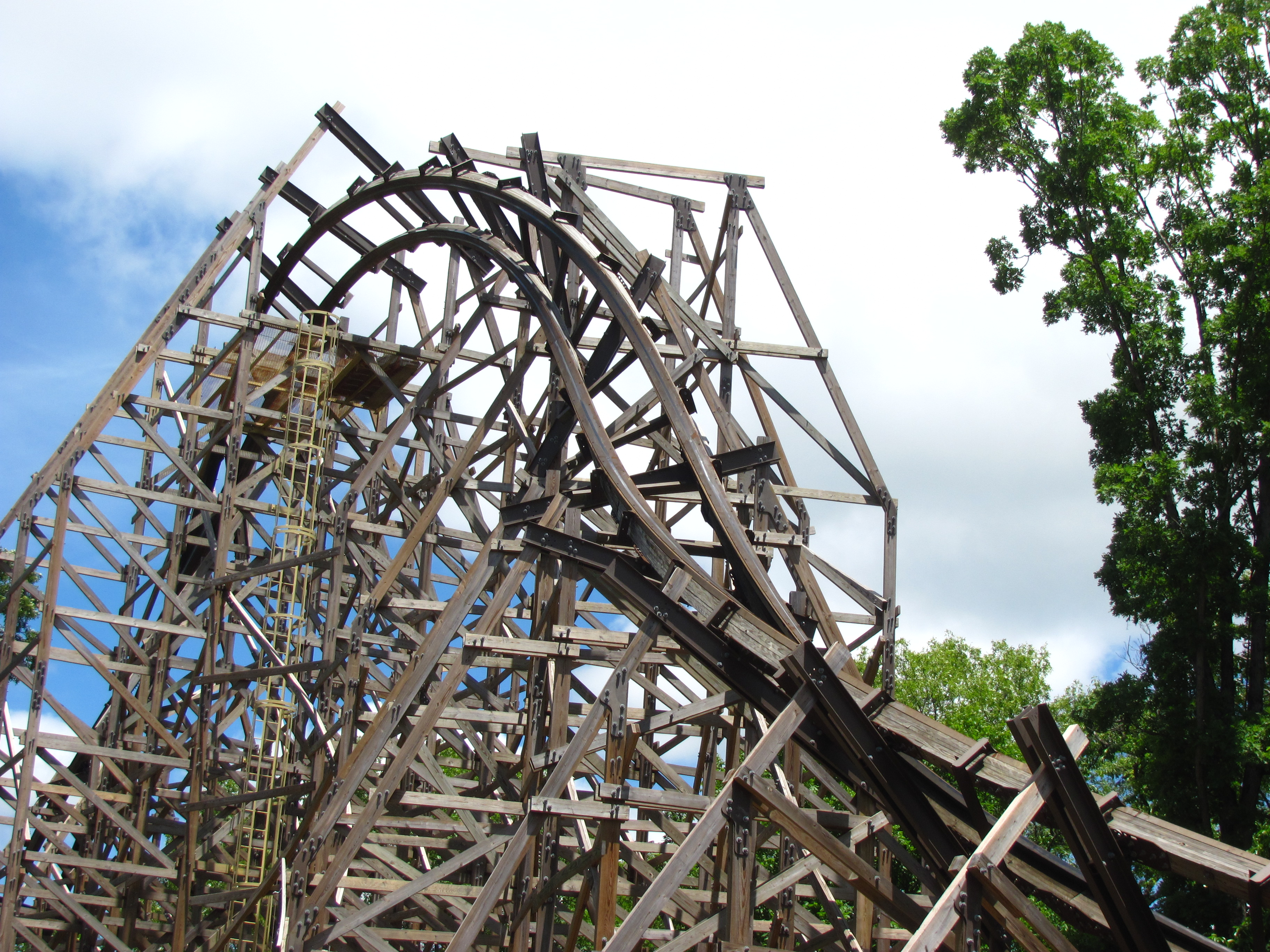 Outlaw Run from Frisco Silver Dollar Line Steam Train